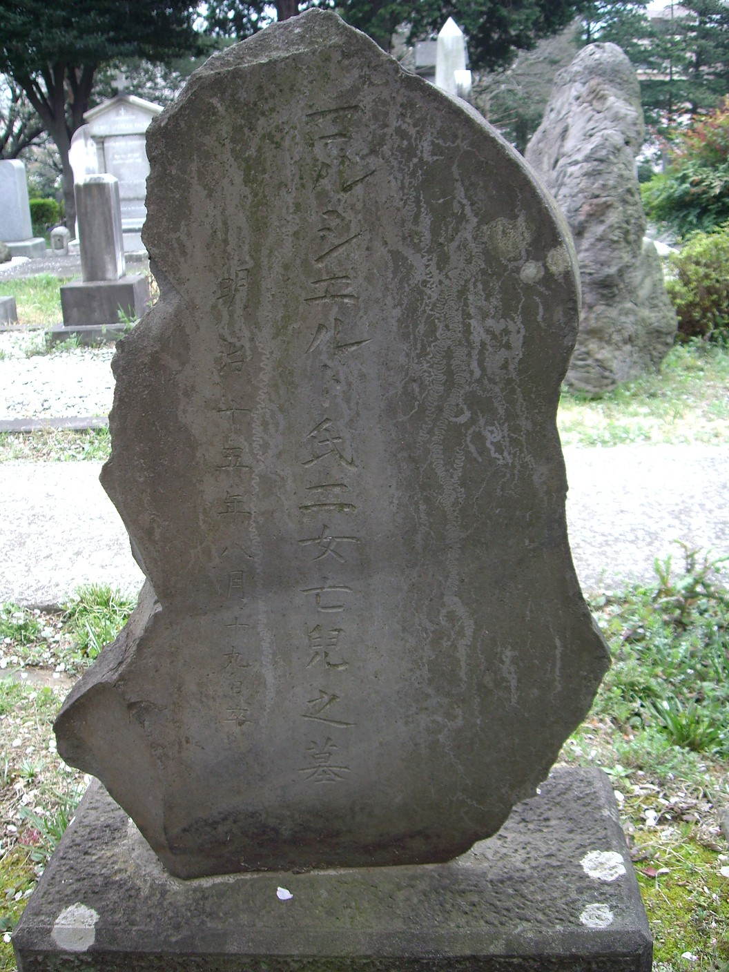 tombstone of Oskar Korchelt's second daughter at Aoyama Cemetery